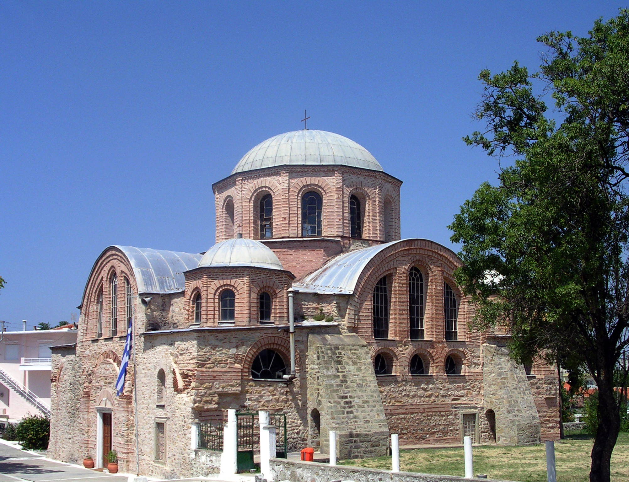 The byzantine church of the Monastery of Panagia Kosmosoteira, Pherres (Feres), Prefecture of Evros.